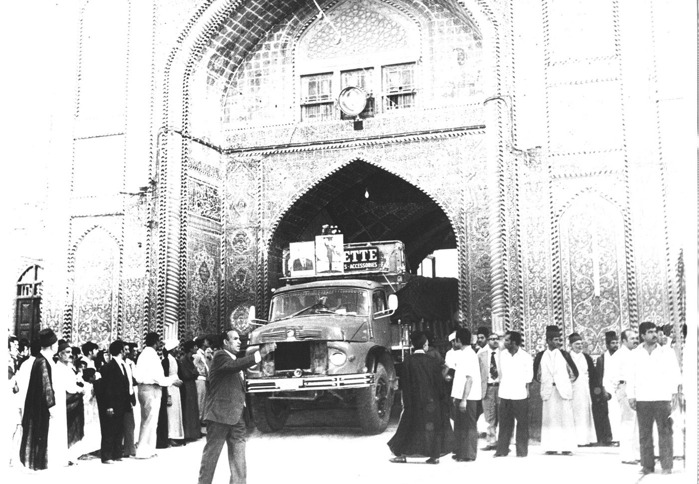 Imam Husayn Shrine in Karbala